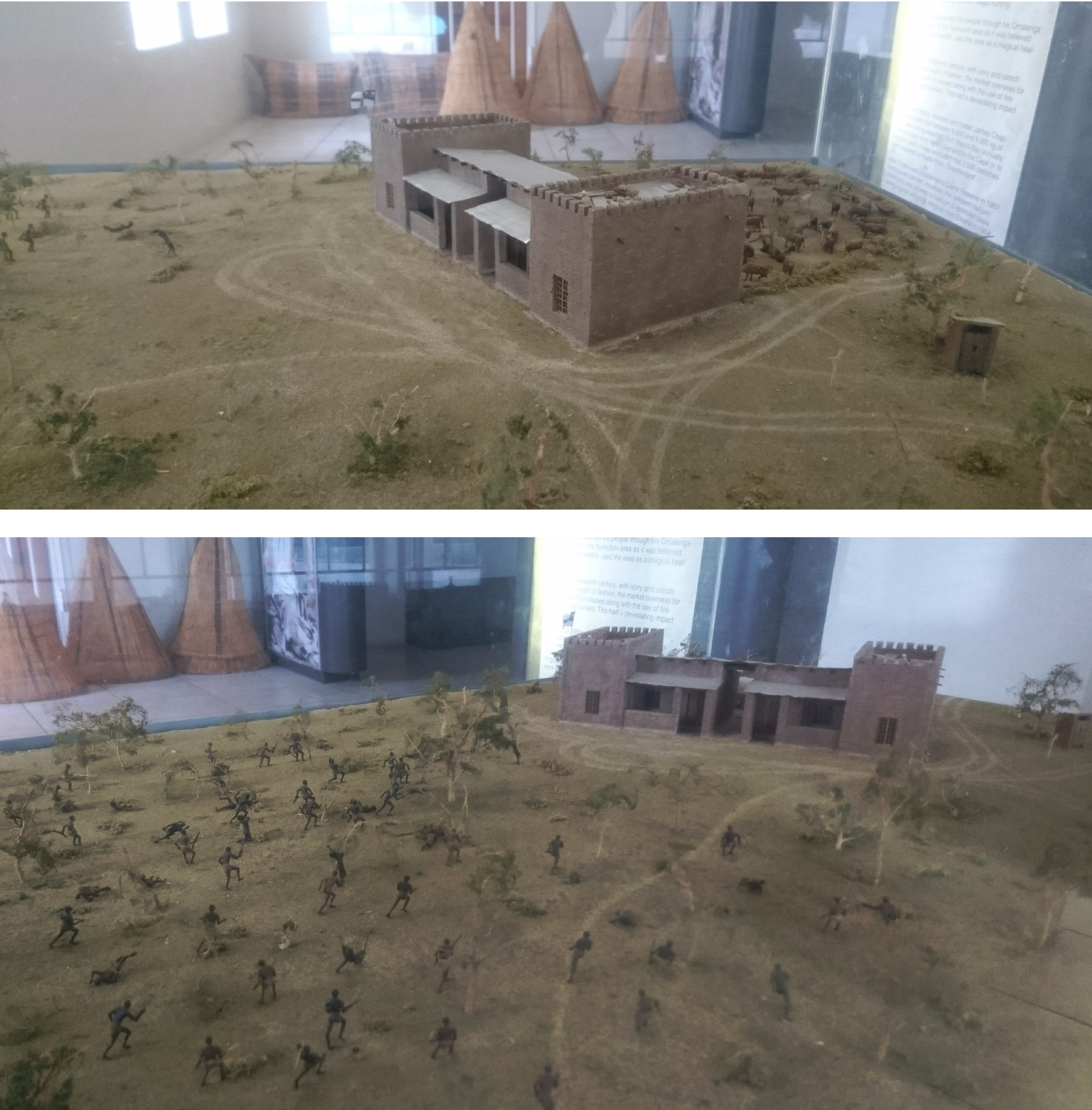 Battle of Namutoni model on dispay at Namutoni Fort. Model was built by Chris Pearson in 1984/5.